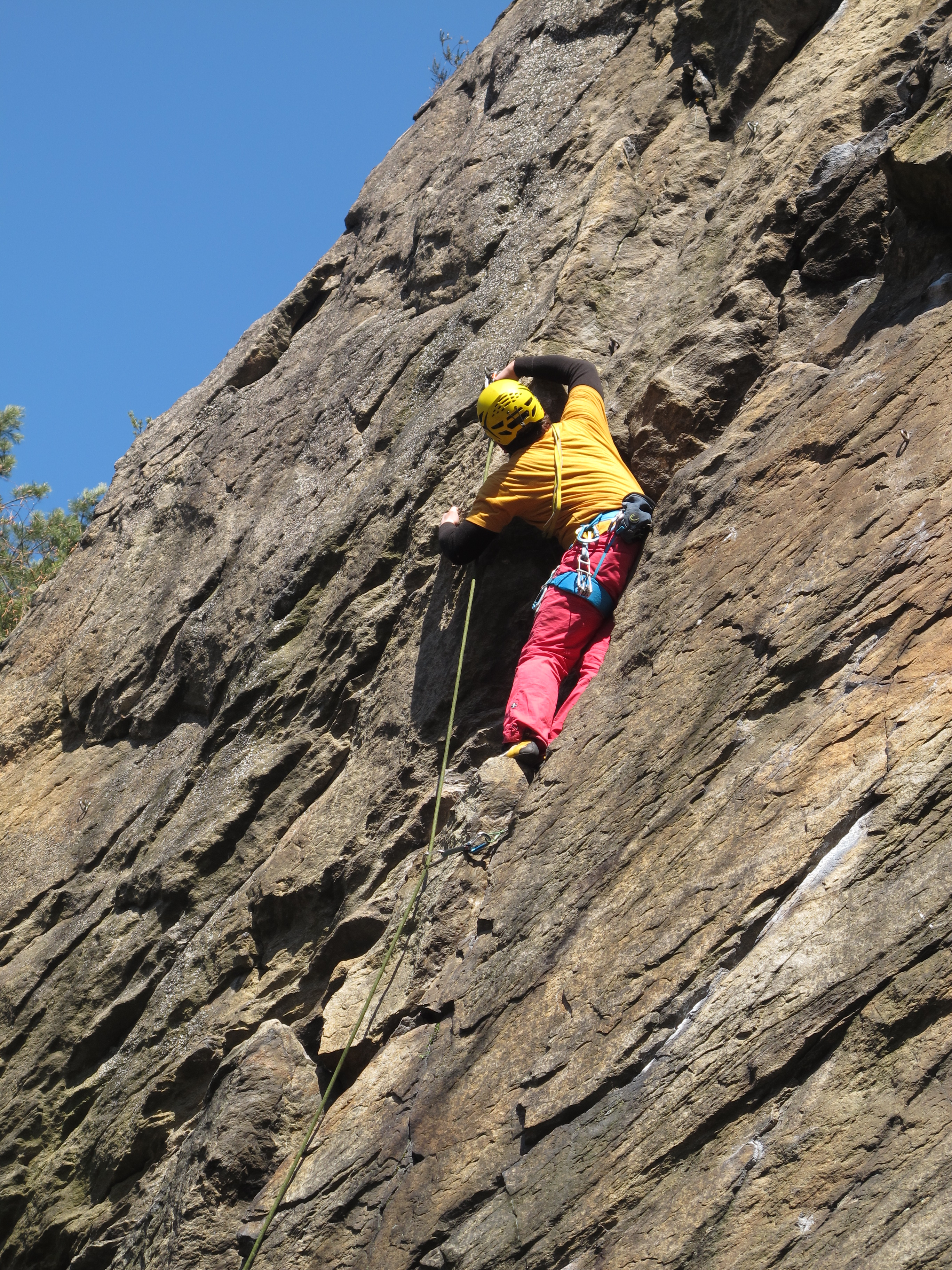 Rock climbing on southern bohemian gneiss. Rock sector "Sedmý špic" near Český Krumlov. Partially trad climb route named "Variant of SW edge", 5+ UIAA